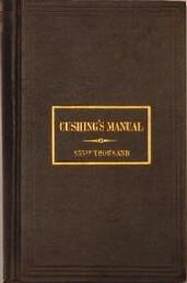 Front cover scan of Cushing's Manual, 1876 printing, published in the United States